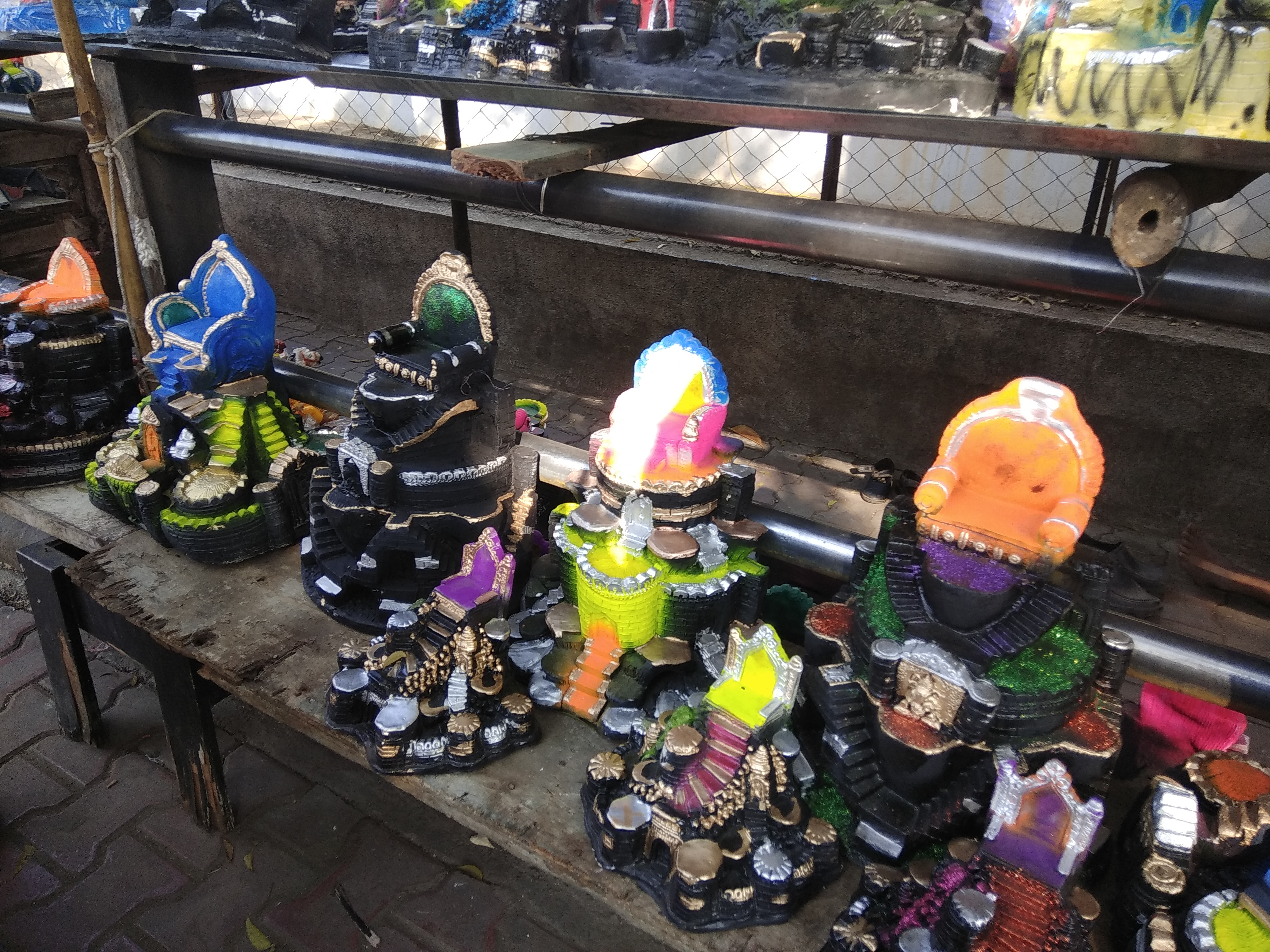 Diwali Killa shop in Pune